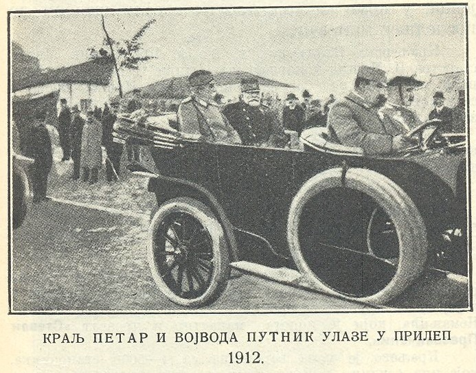 King Peter and duke Putnik entering Prilep in 1912. Српски (ћирилица): Краљ Петар и војвода Путник улазе у Прилеп 1912. године